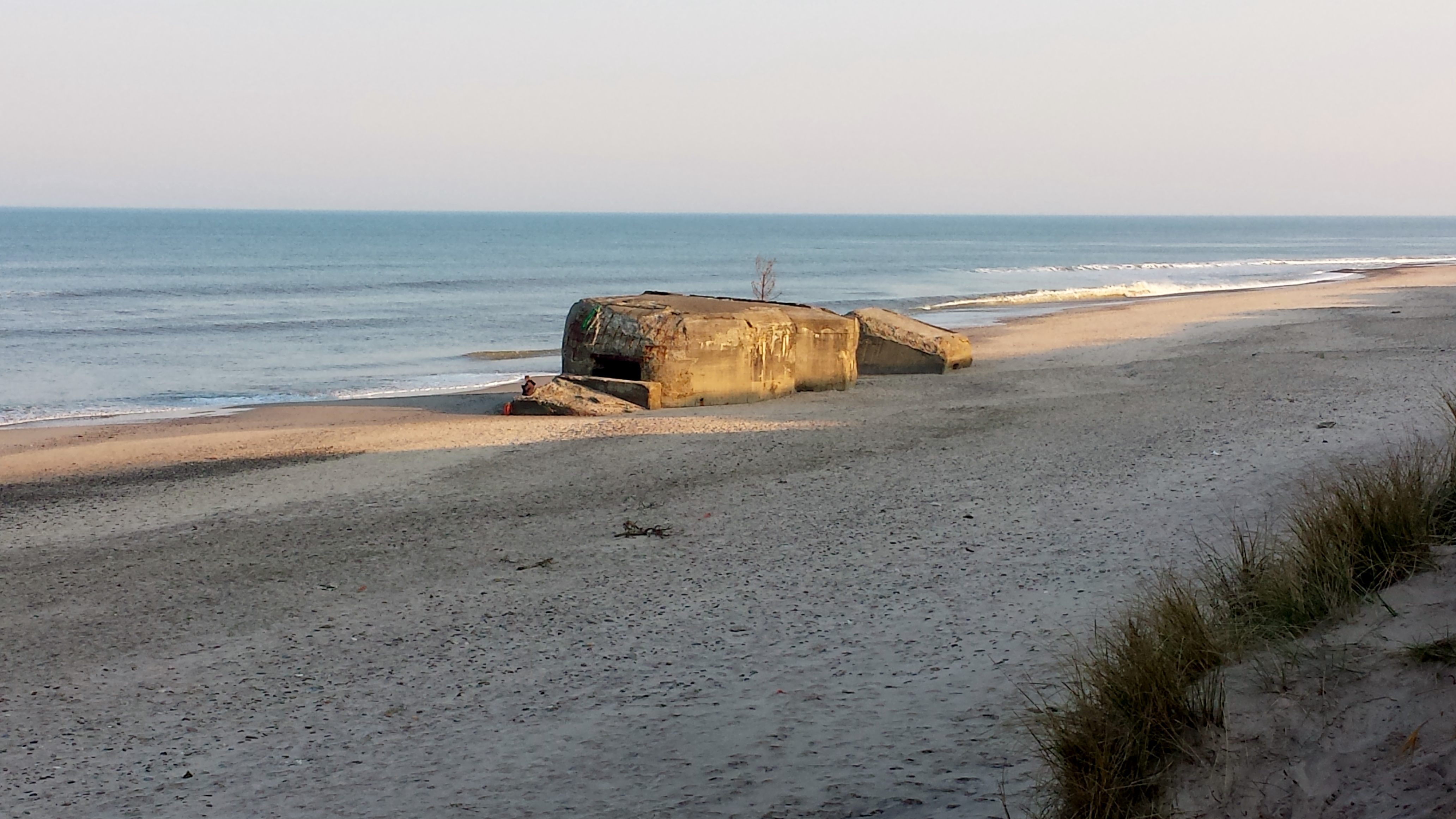 North Sea, Vedersø Klit